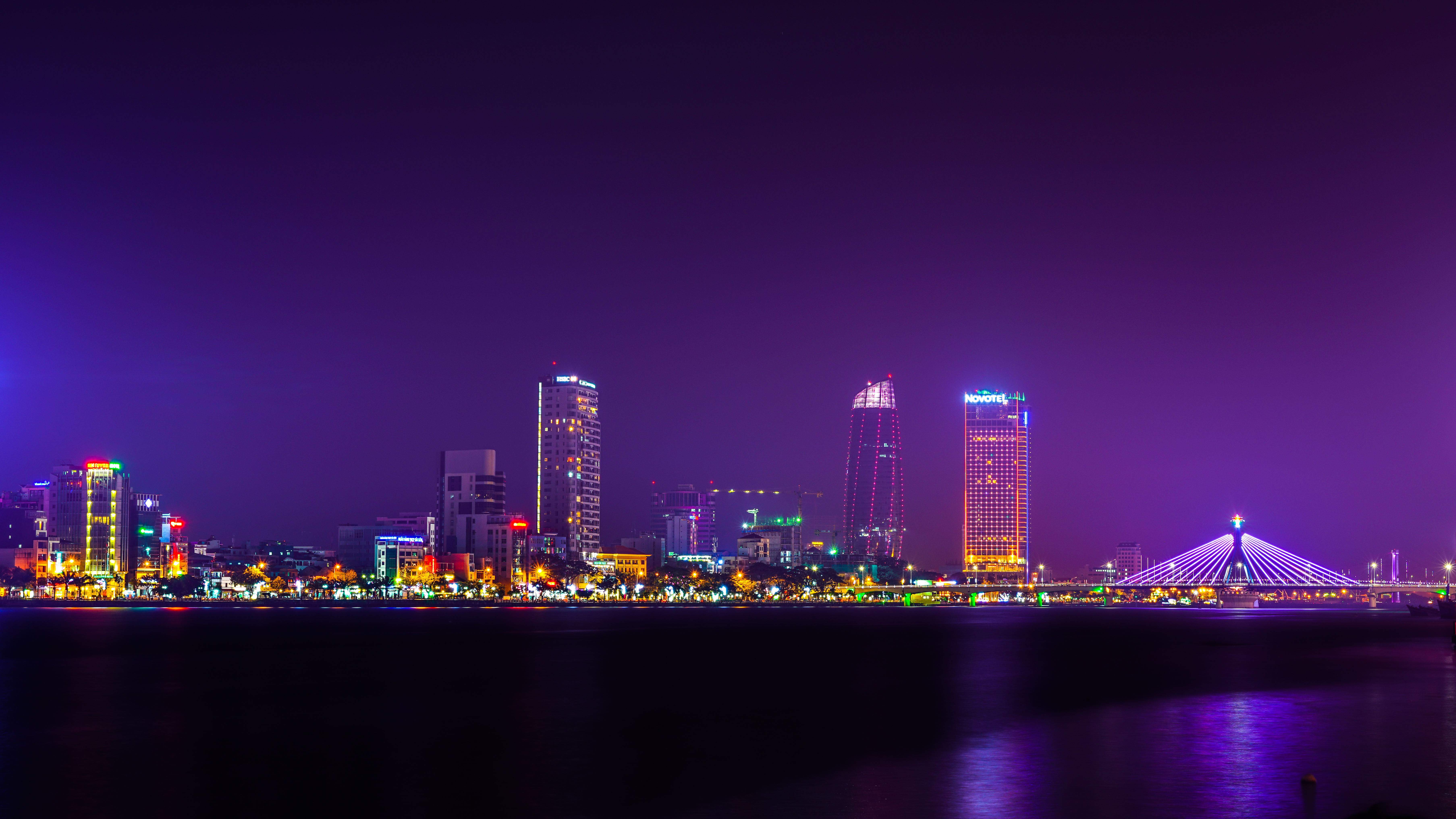 Da Nang, Vietnam